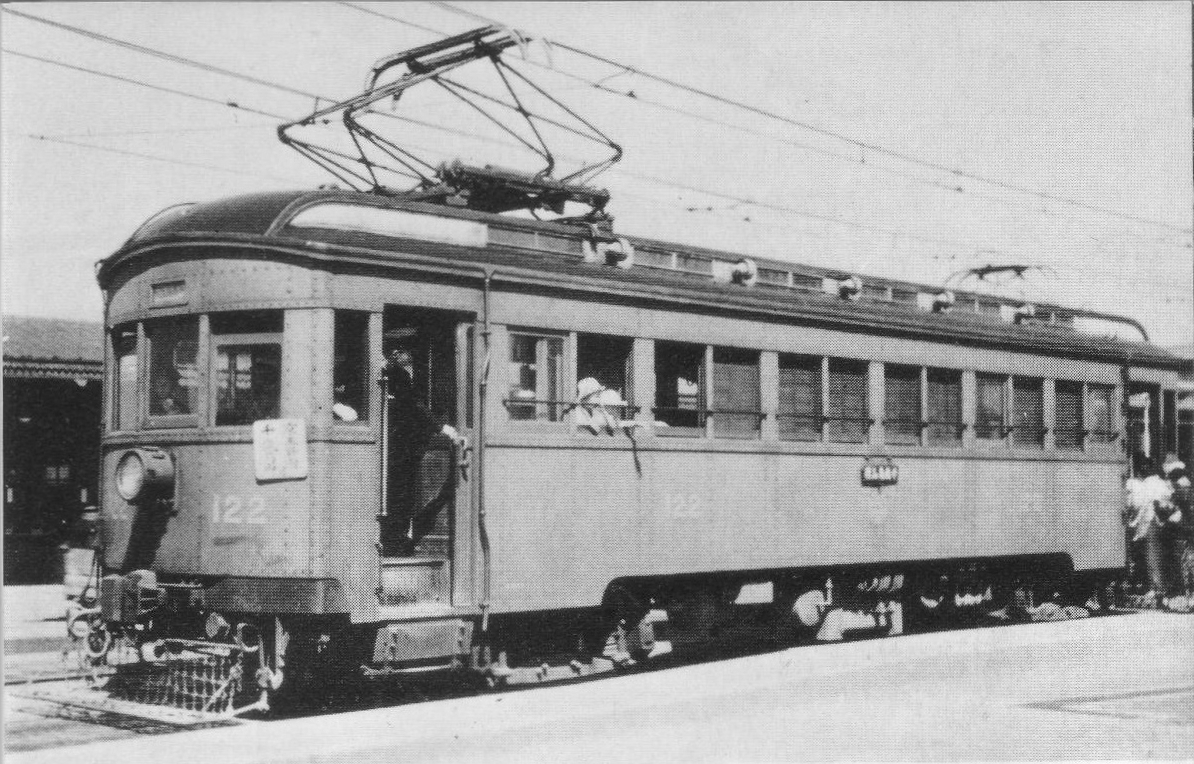 Keio Corporation #122. taken in 1937.